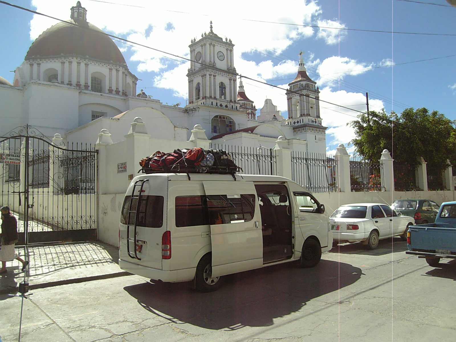 miahuatlan de porfirio diaz oaxaca mexico 2010